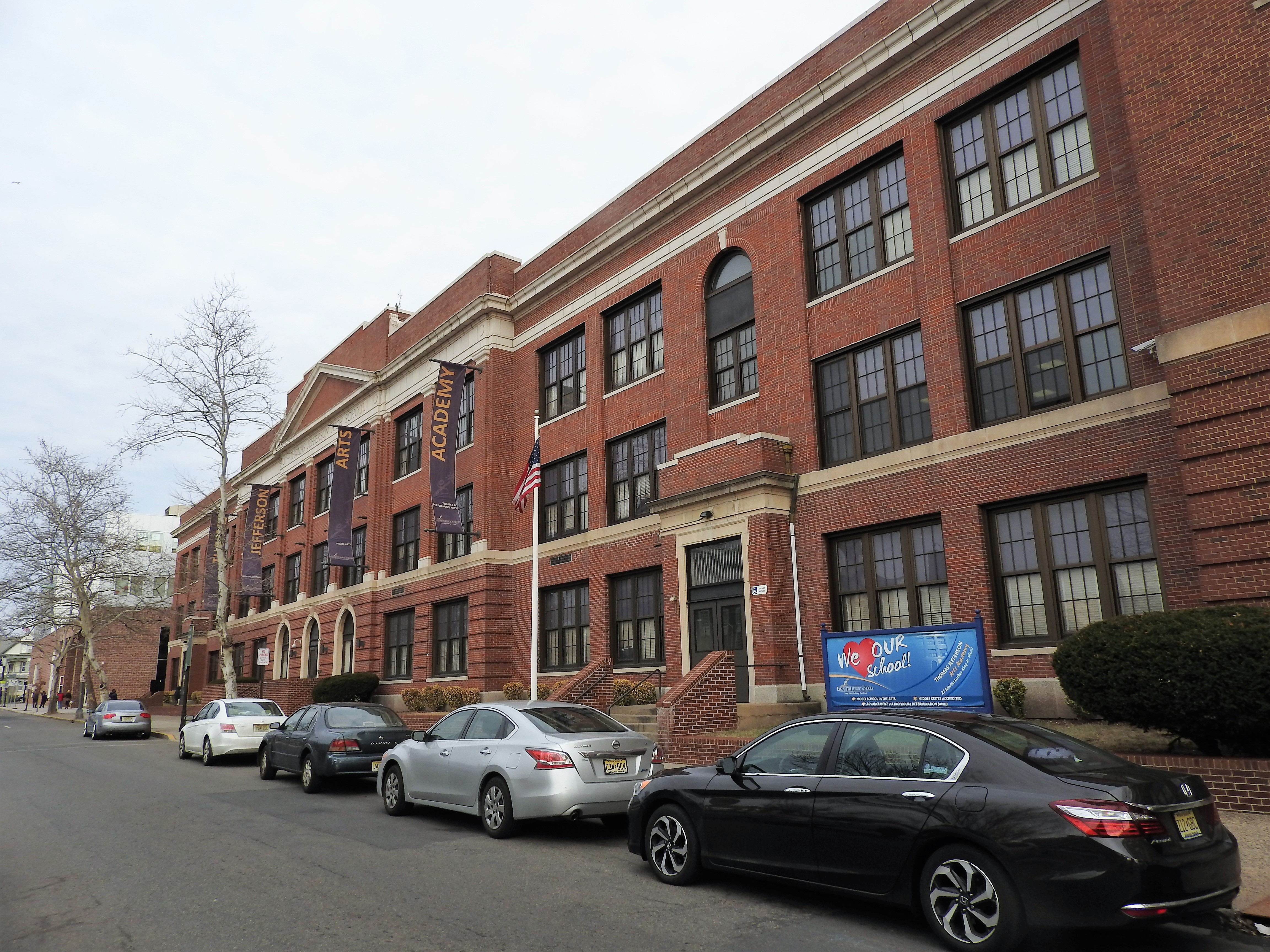 Looking north at high school on a cloudy afternoon